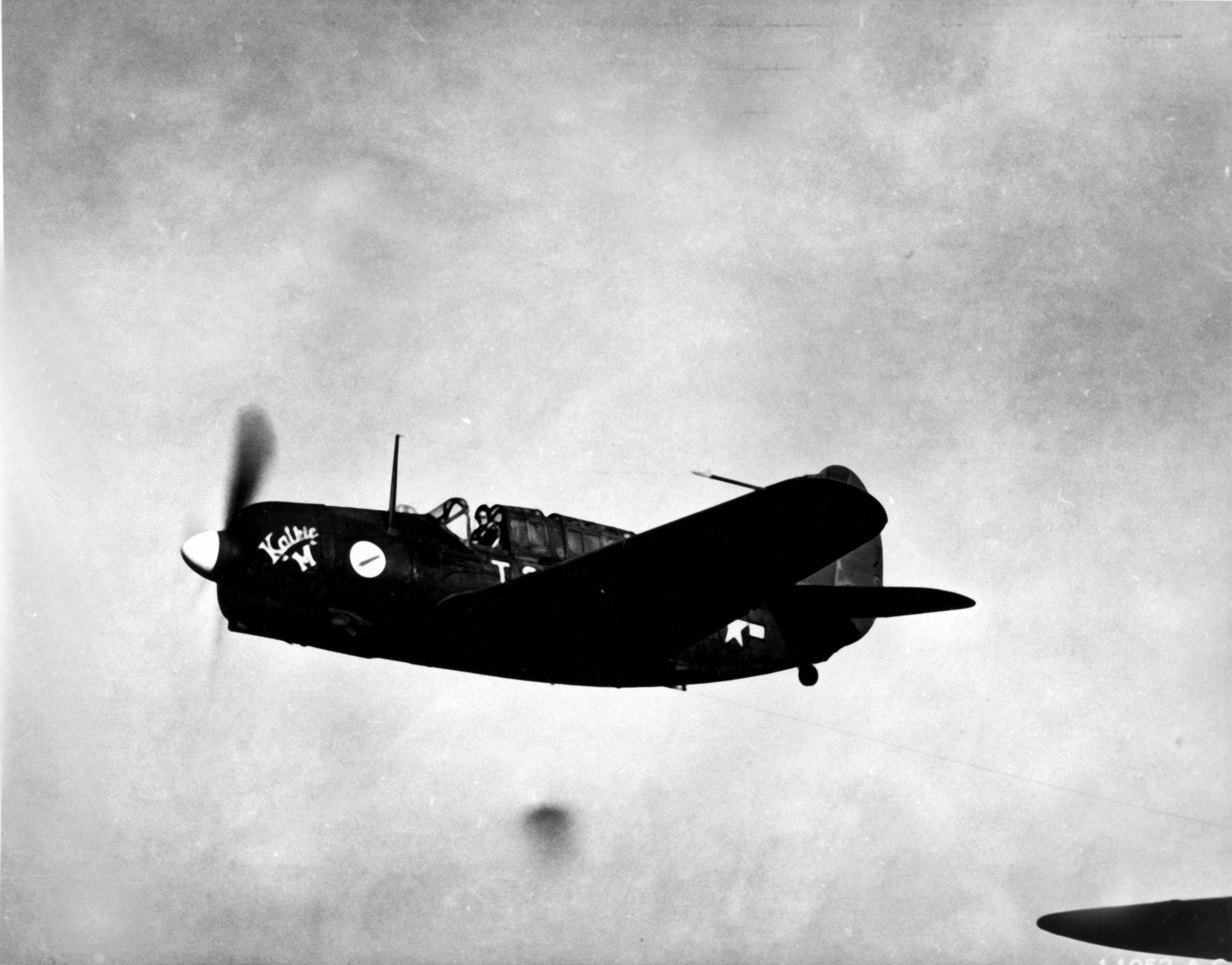 A USAAF Curtiss A-25 Shrike, flown by Helen W. Snapp, Women Airforce Service Pilot (WASP), in June 1944. She served with the 4th Tow Ttarget Squadron at Camp Stewart, Georgia (USA).